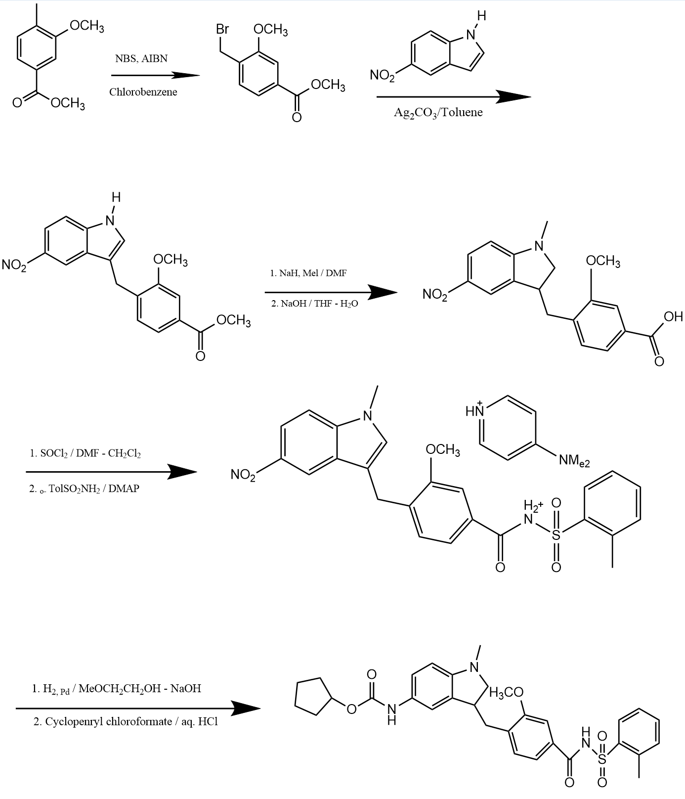 This is one way Zafirlukast could be synthesized